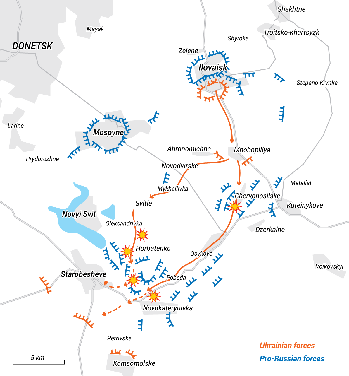 Ilovaisk battle, August 2014